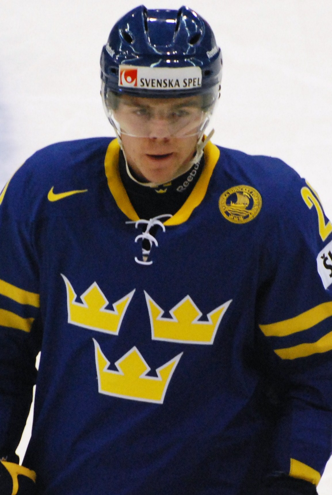 Magnus Paajarvi Svensson during a game against Austria in the 2010 World Junior Hockey Championships.